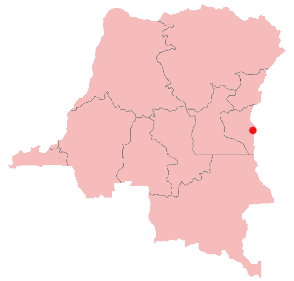 Uvira, Democratic Republic of the Congo Location Map; created with the GIMP. Made by User:Acntx.